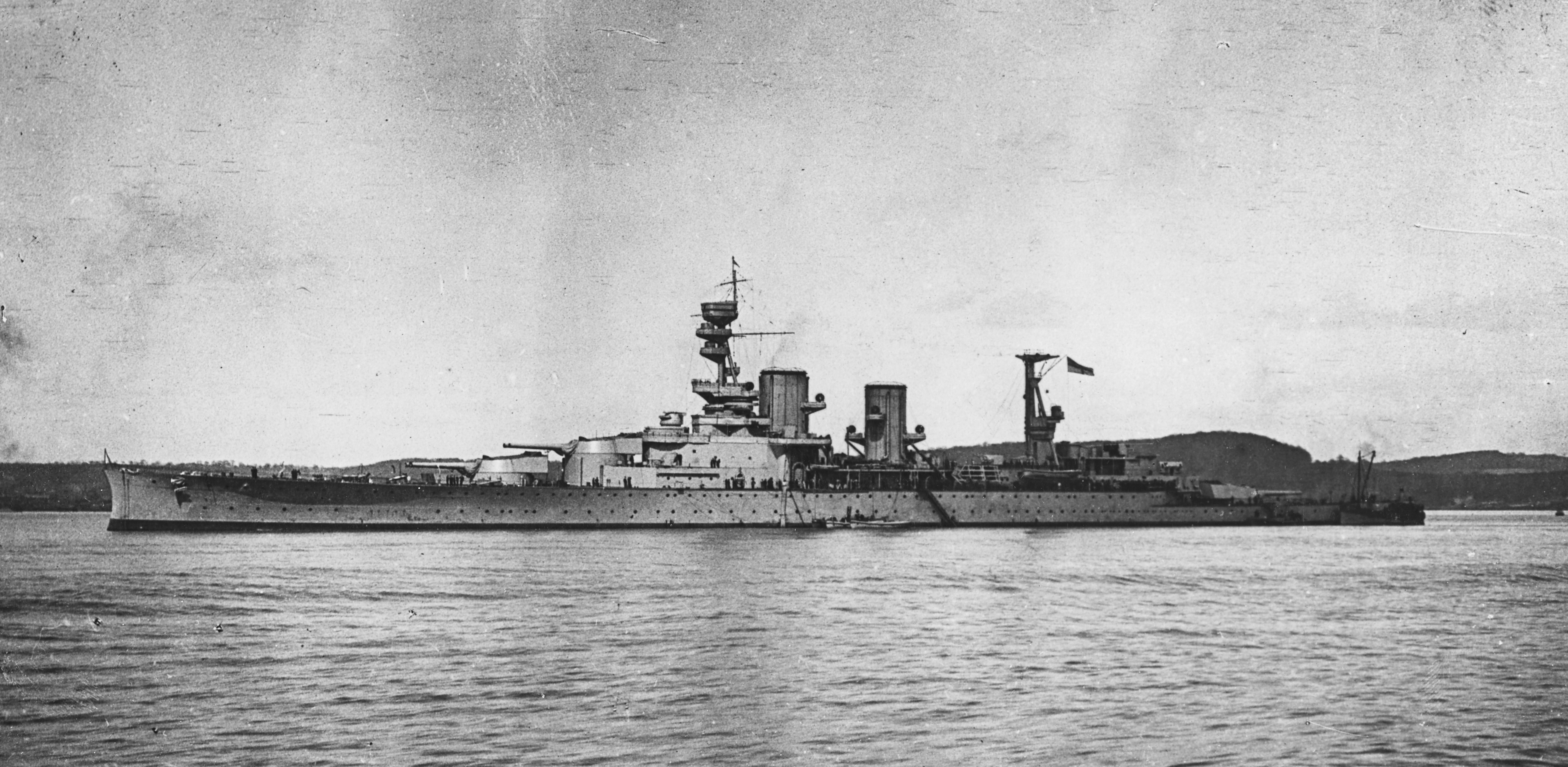 The Royal Navy battlecruiser HMS Repulse photographed circa 1916-17, after post-trials alterations but prior to receiving searchlight towers on her after funnel in place of open searchlight platforms.